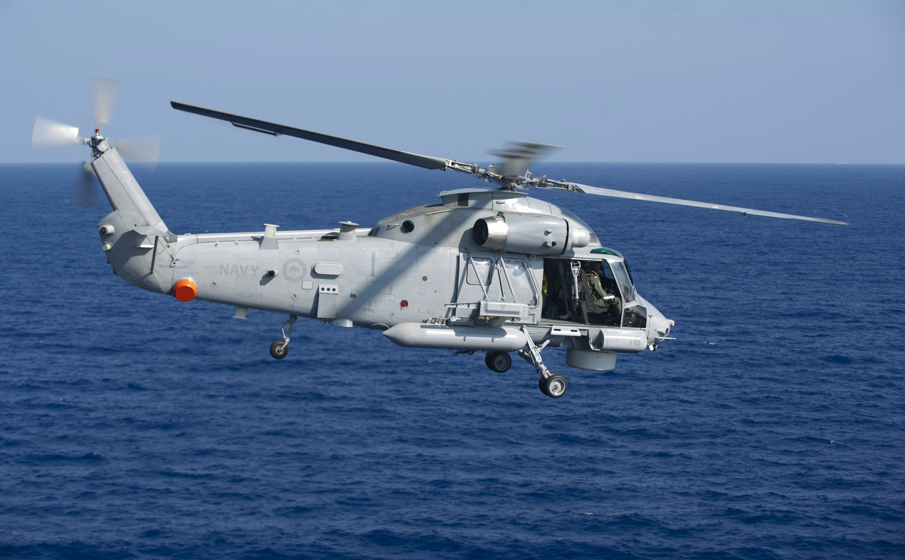 160725-N-LD343-004 PACIFIC OCEAN (July 25, 2016) – A Royal New Zealand Navy SH-2G(I) Seasprite helicopter flies over the Pacific Ocean after departing the amphibious assault ship USS America (LHA 6). America is underway conducting maritime exercises with partner nations for Rim of the Pacific 2016.